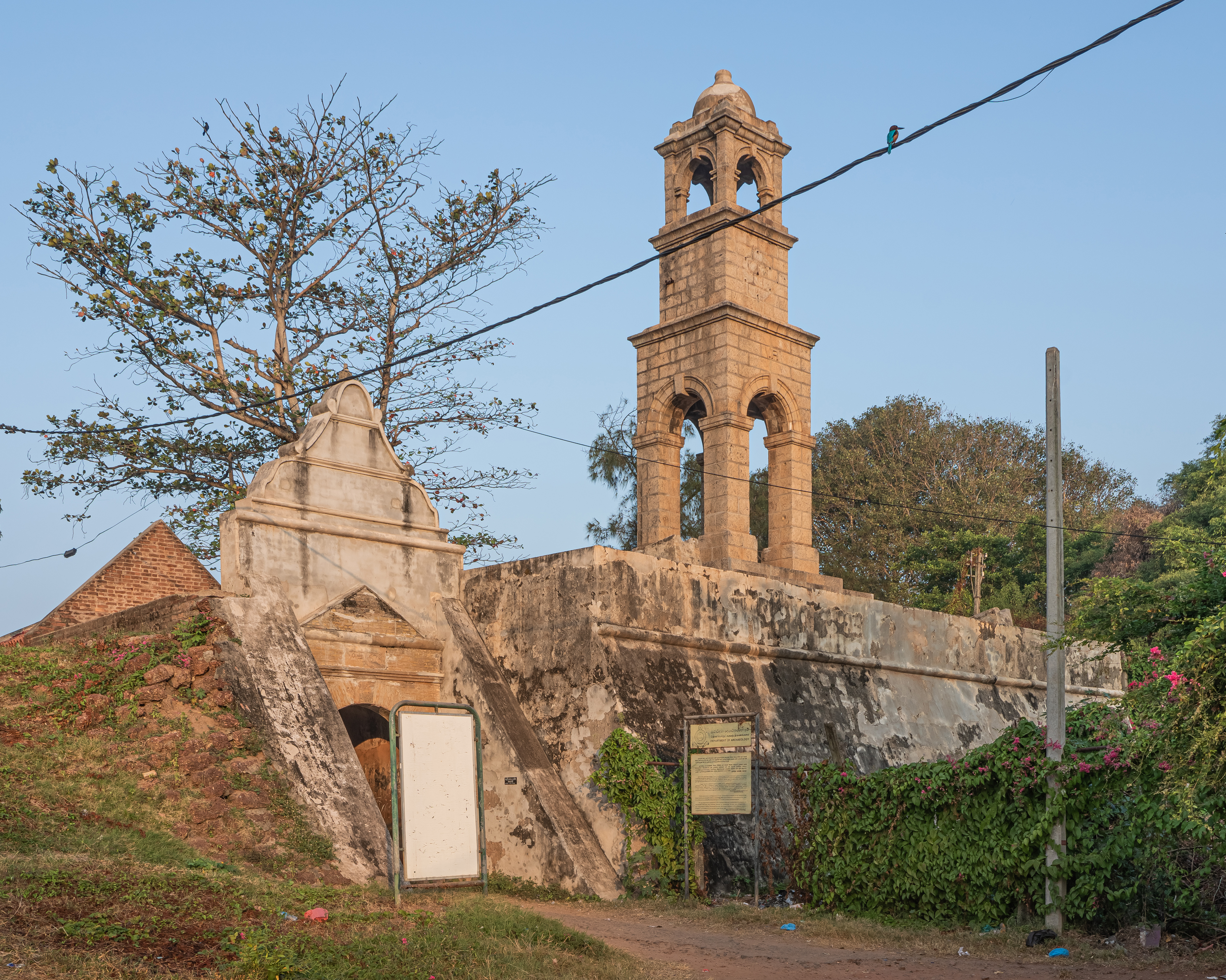 Rampart and walls of the Dutch Fort in Negombo, Sri Lanka